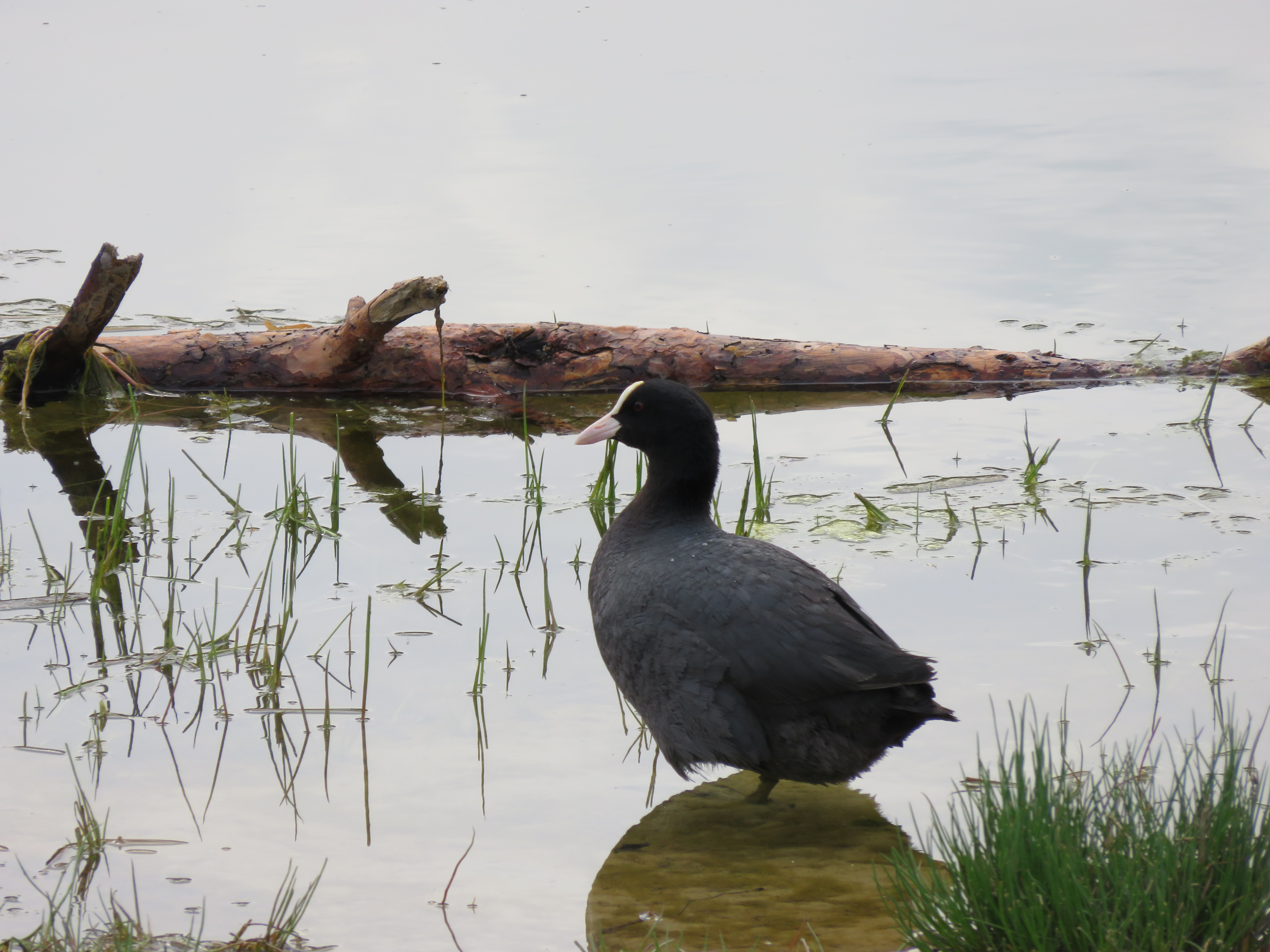 Eurasian coot (Fulica atra) in a pond in Partyz Glory Park, Kyiv, Ukraine